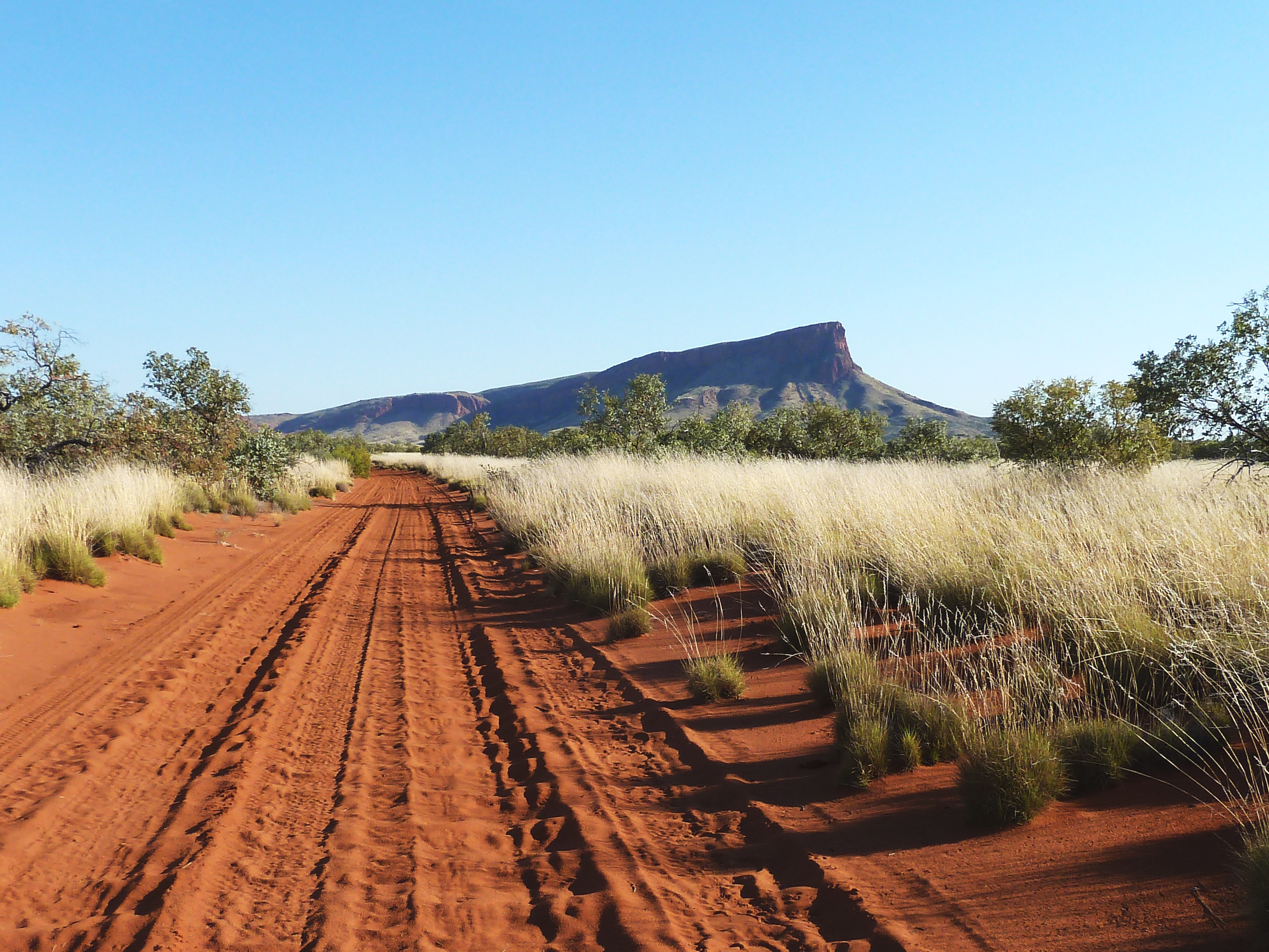 Mount Leisler viewed from the Sandy Blight Junction Road west of Alice Springs.